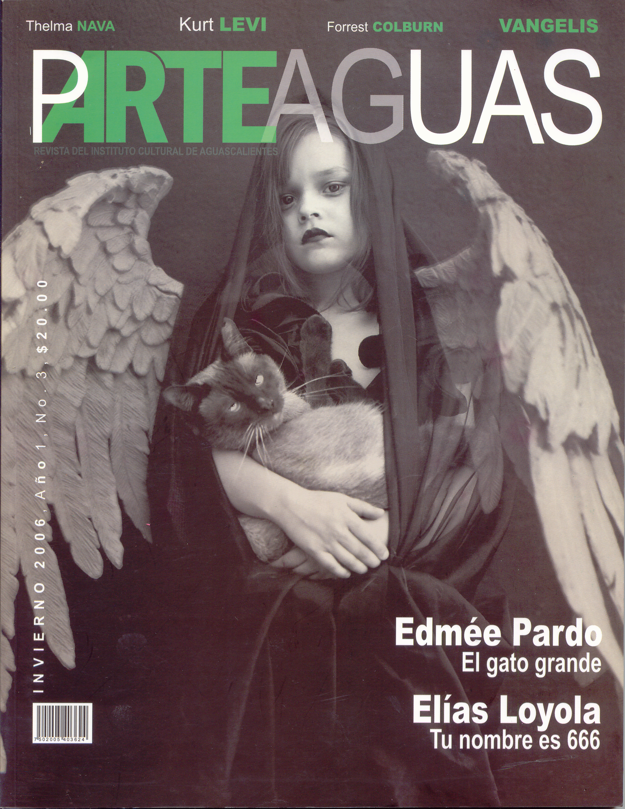 Portada del número 3 de "Parteaguas", revista del Instituto Cultural de Aguascalientes. invierno de 2006